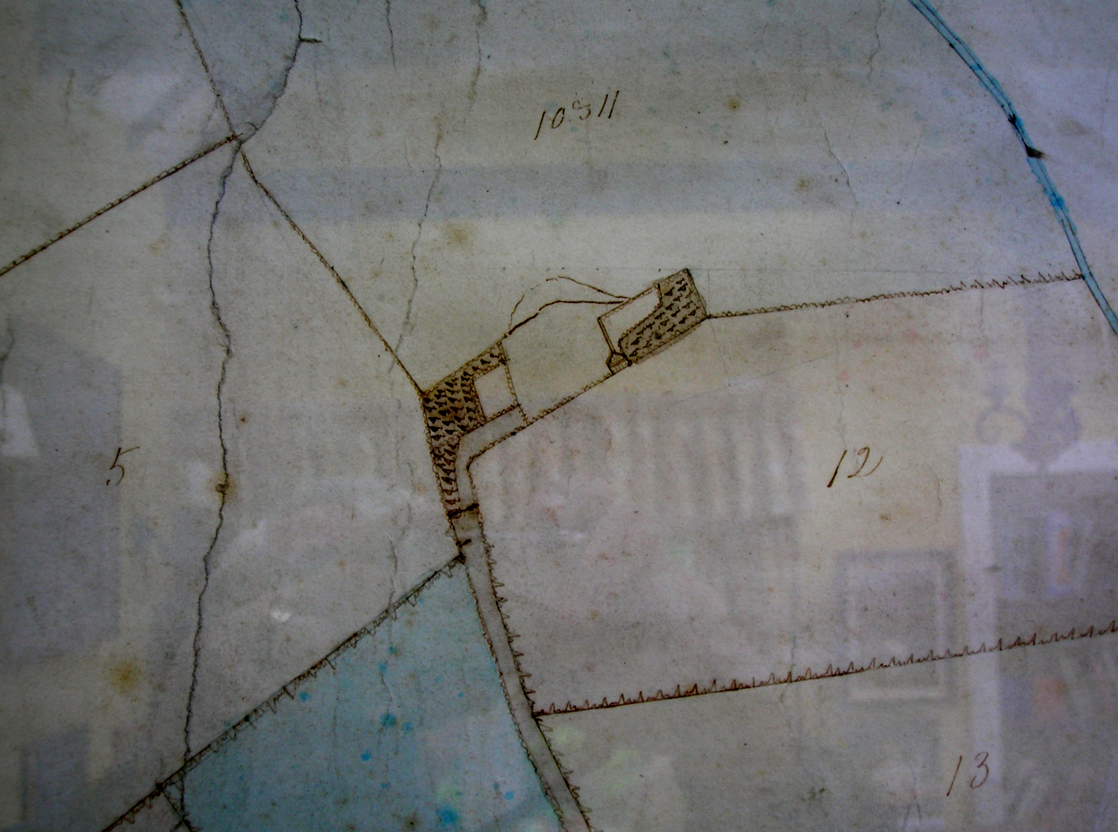 The site of Beith Castle, North Ayrshire, Scotland. 1850.